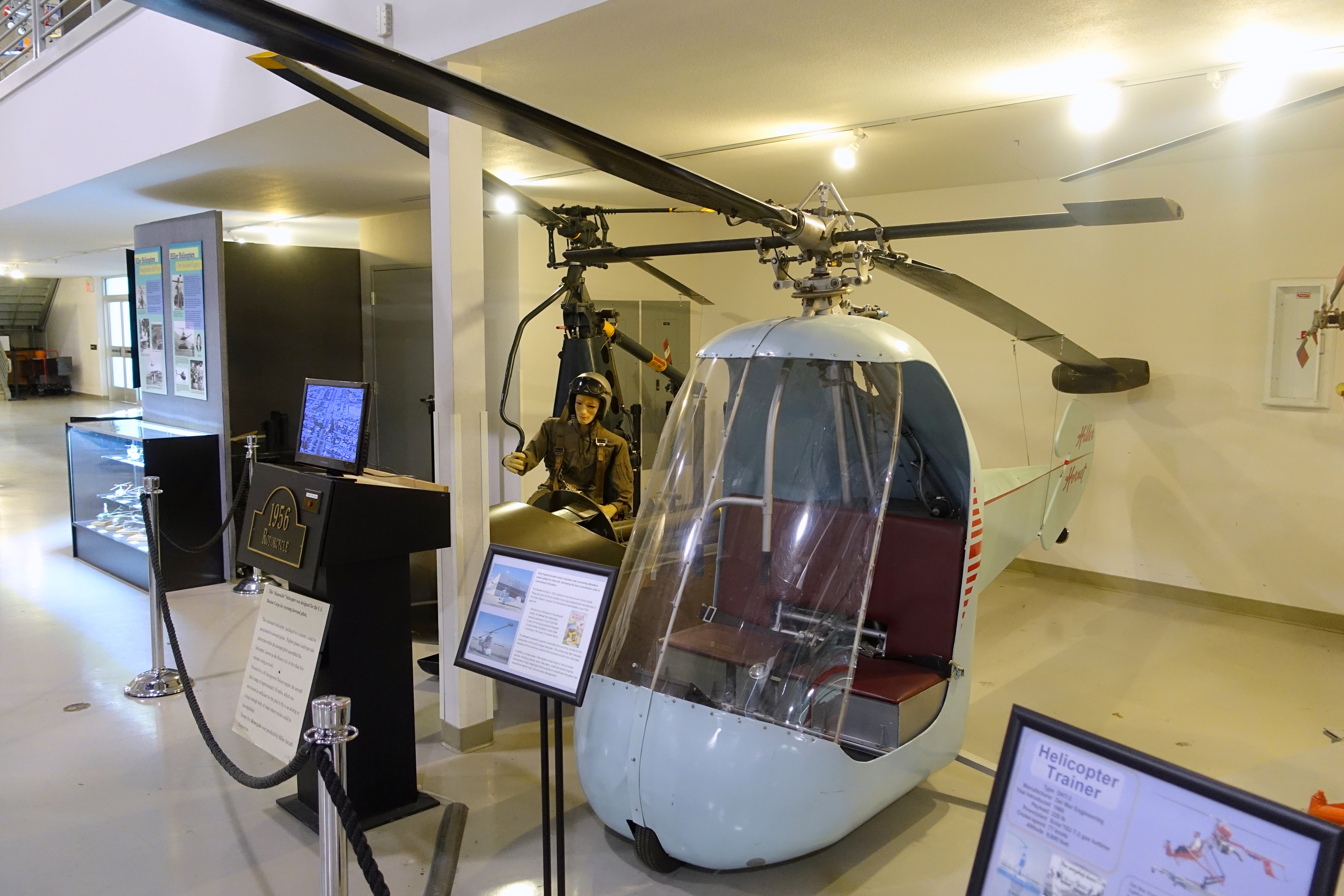 Exhibit in the Hiller Aviation Museum, San Carlos, California, USA.